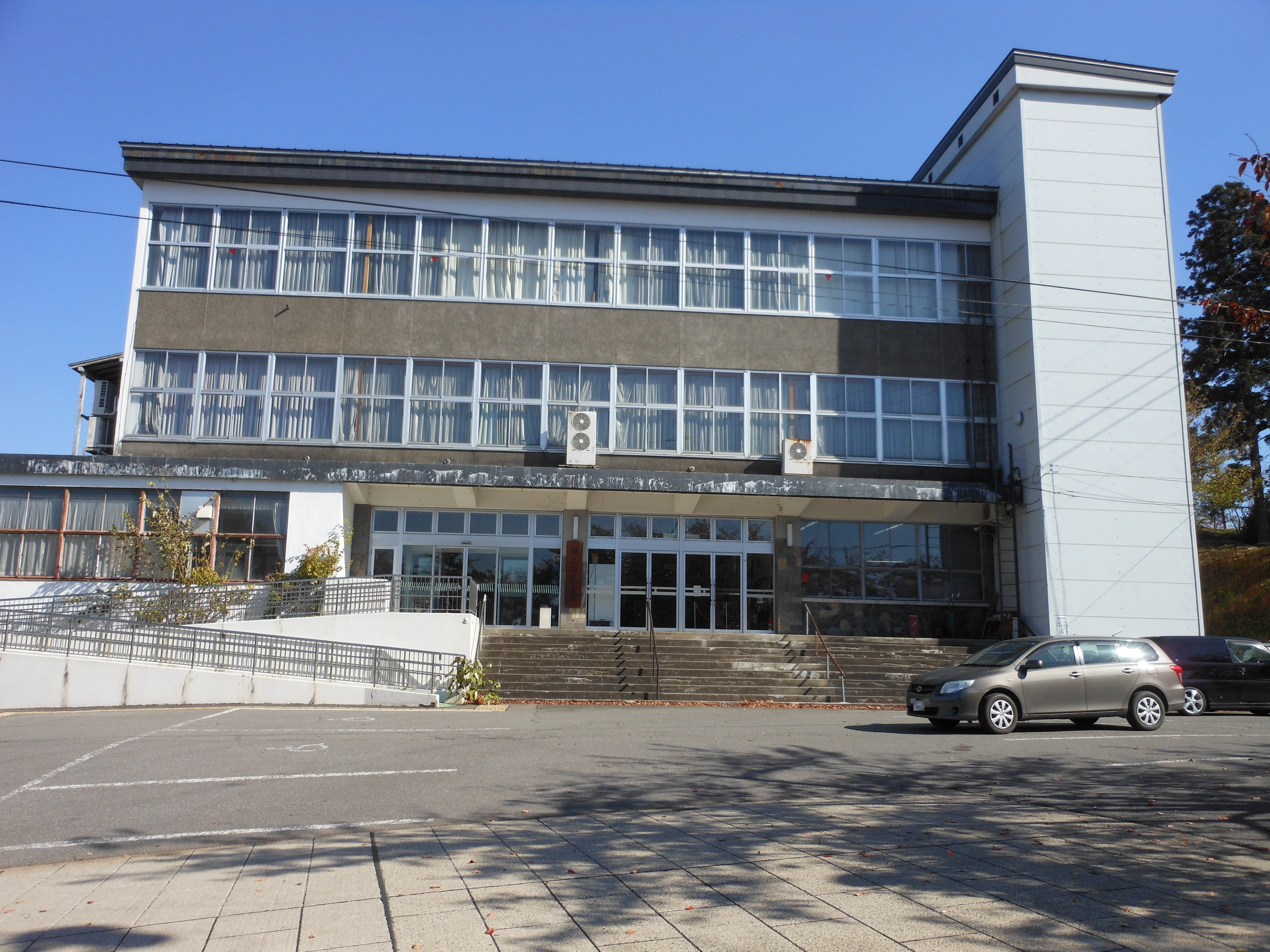 This is the Iiyama Civic Hall in Iiyama, Nagano, Japan.